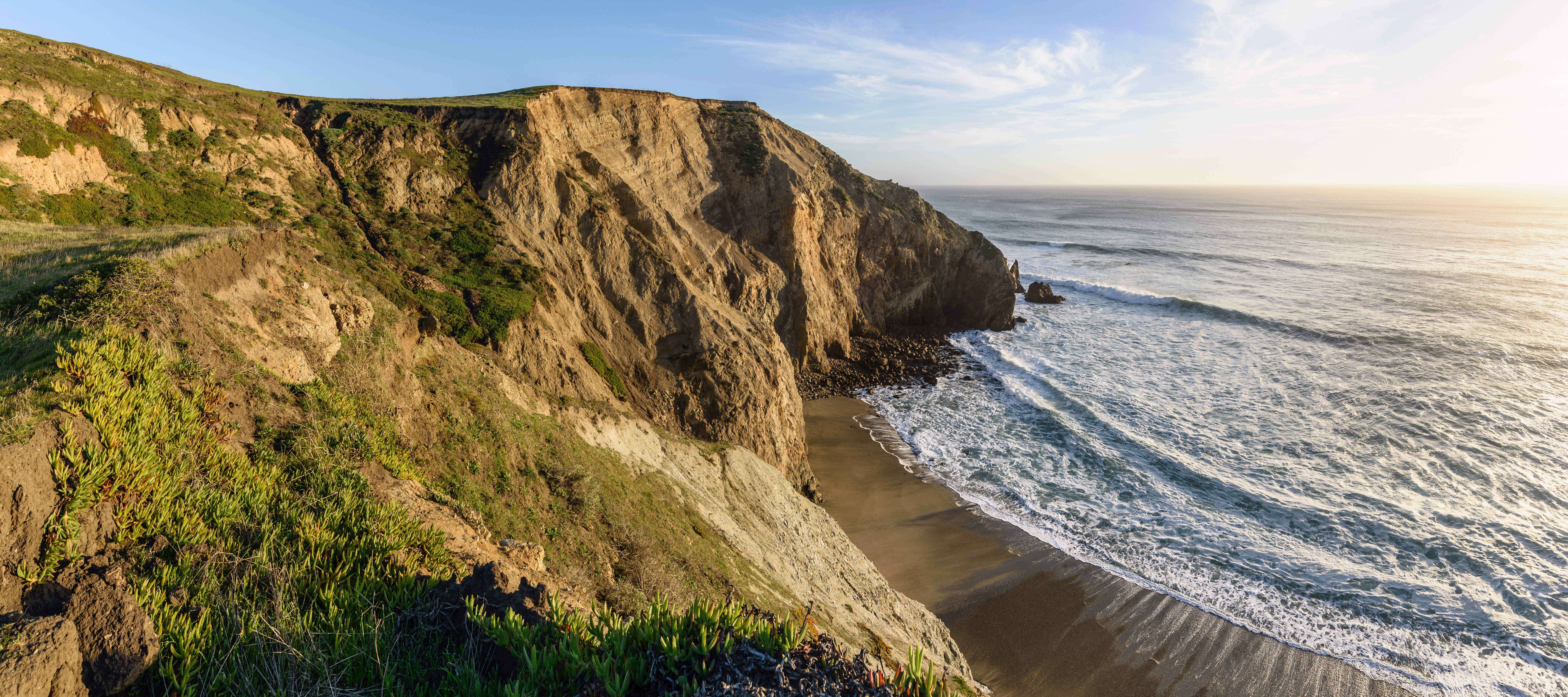 Three-segment panorama of Chimney Rock headlands from Chimney Rock Trail, Point Reyes National Seashore, California.